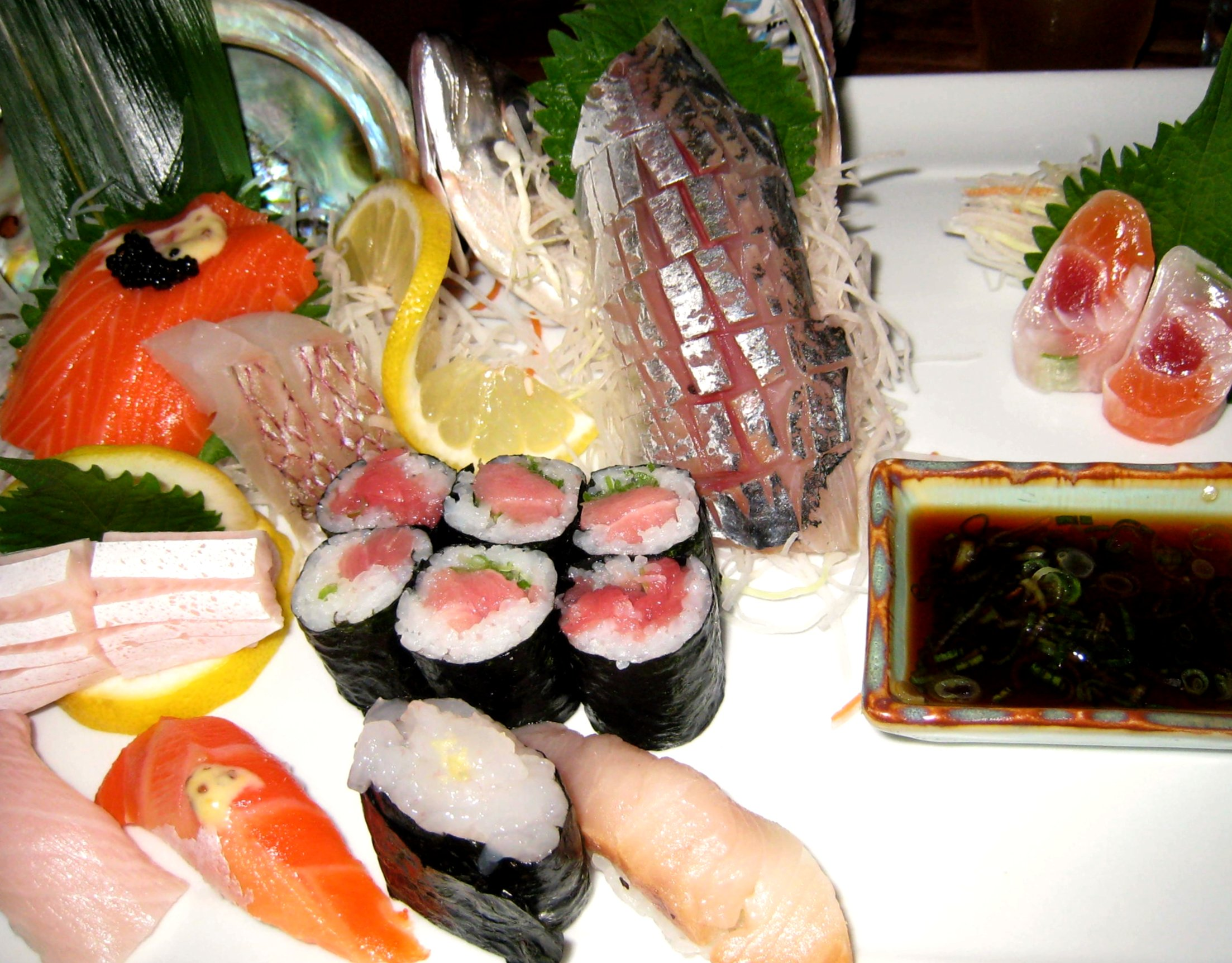 Omakase at Blue Ribbon Omakase (お任せ) is a Japanese phrase that means "It's up to you" (from Japanese 任す, entrust). The expression is used at sushi restaurants to leave the selection to the chef.